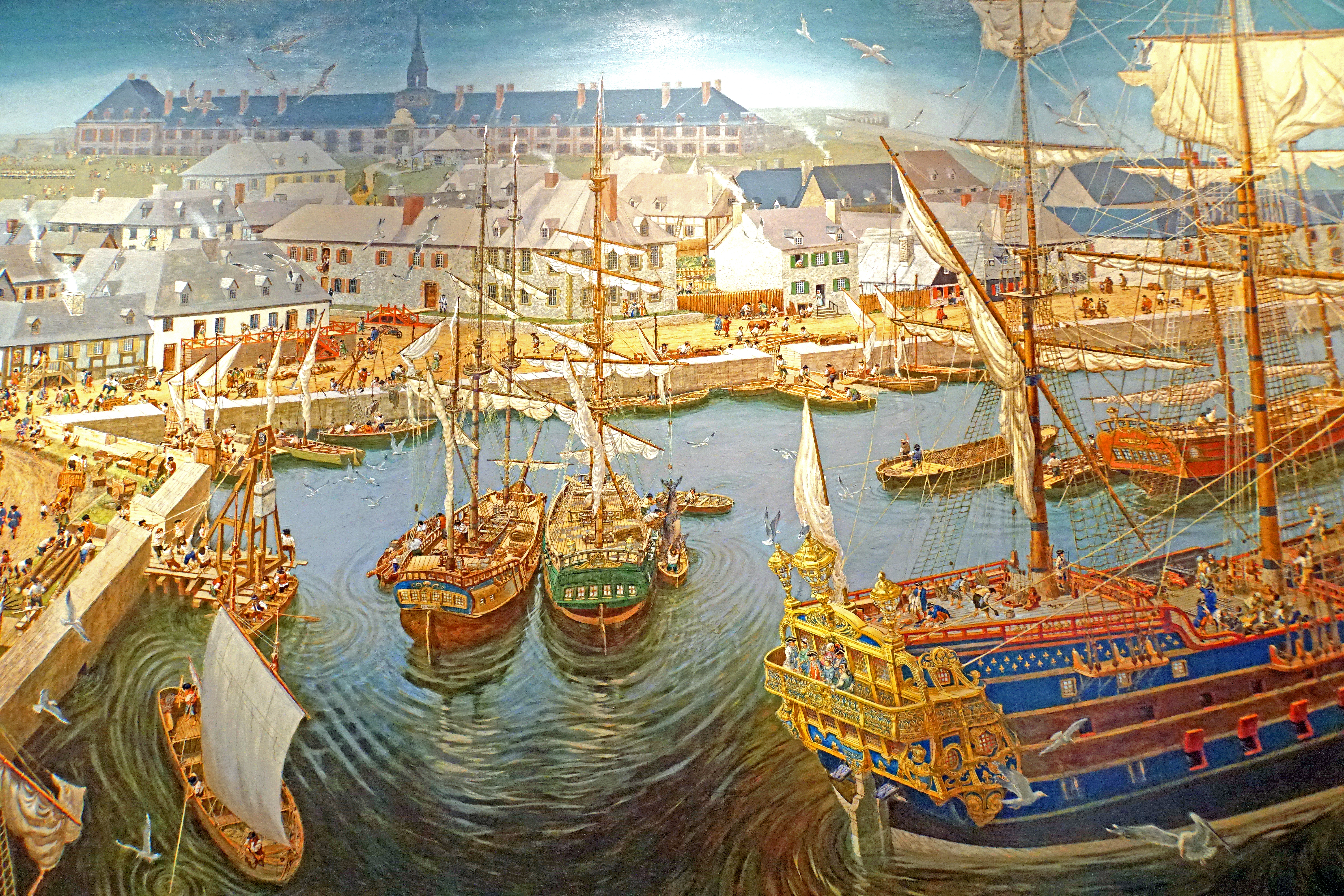 PLEASE, NO invitations or self promotions, THEY WILL BE DELETED. My photos are FREE to use, just give me credit and it would be nice if you let me know, thanks. Painting showing recreations of Louisbourg's busy port before destruction.